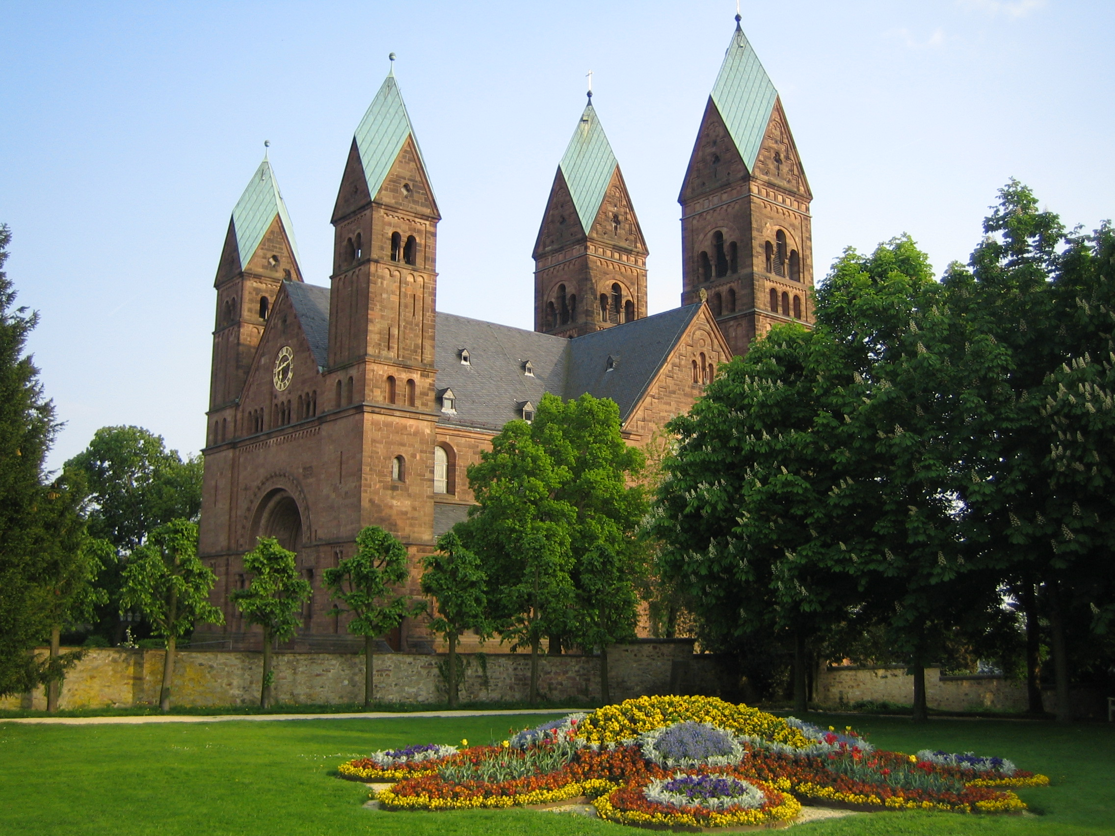 The Church ofthe Redeemer in Bad Homburg